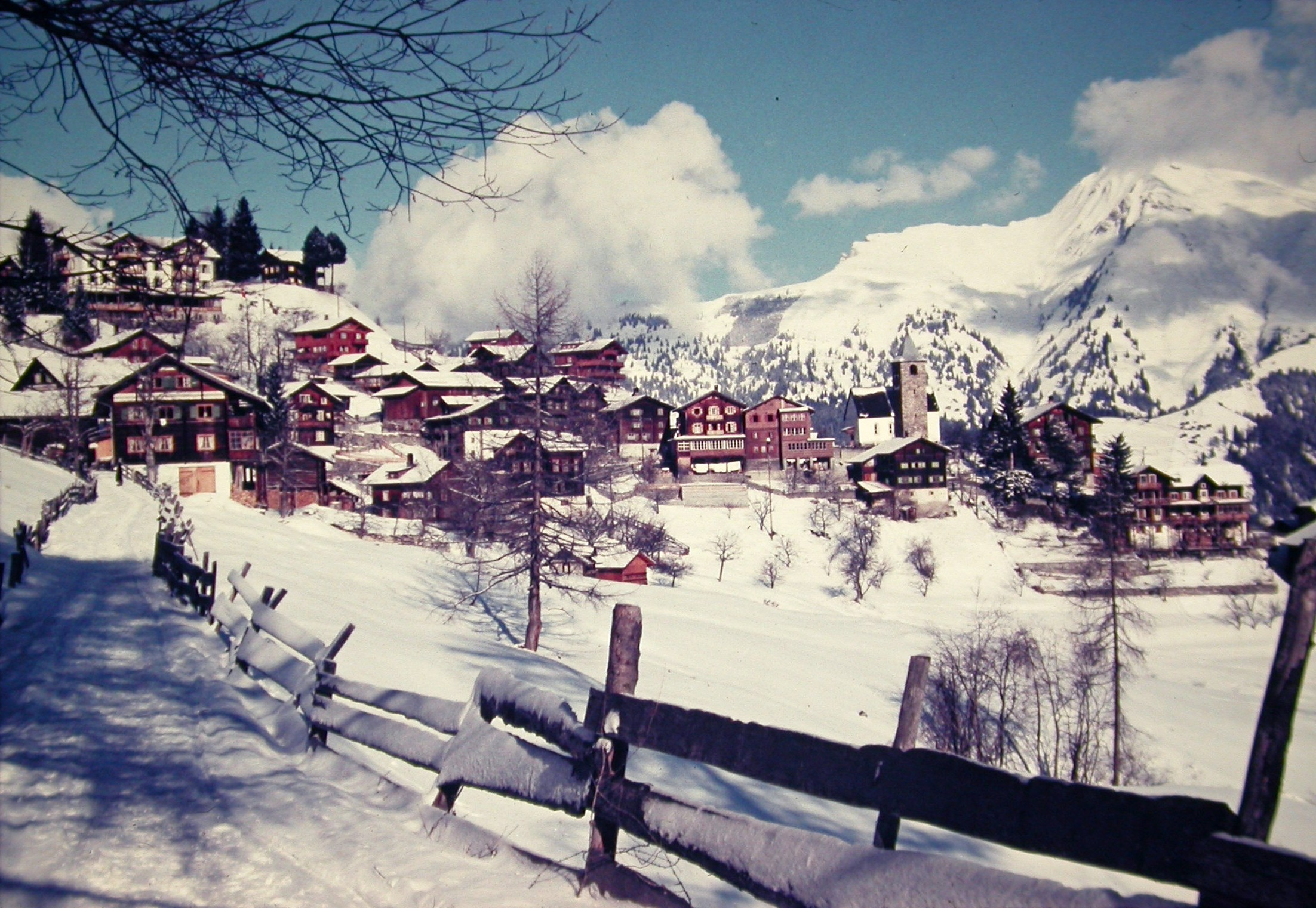 Tschiertschen in February 1957